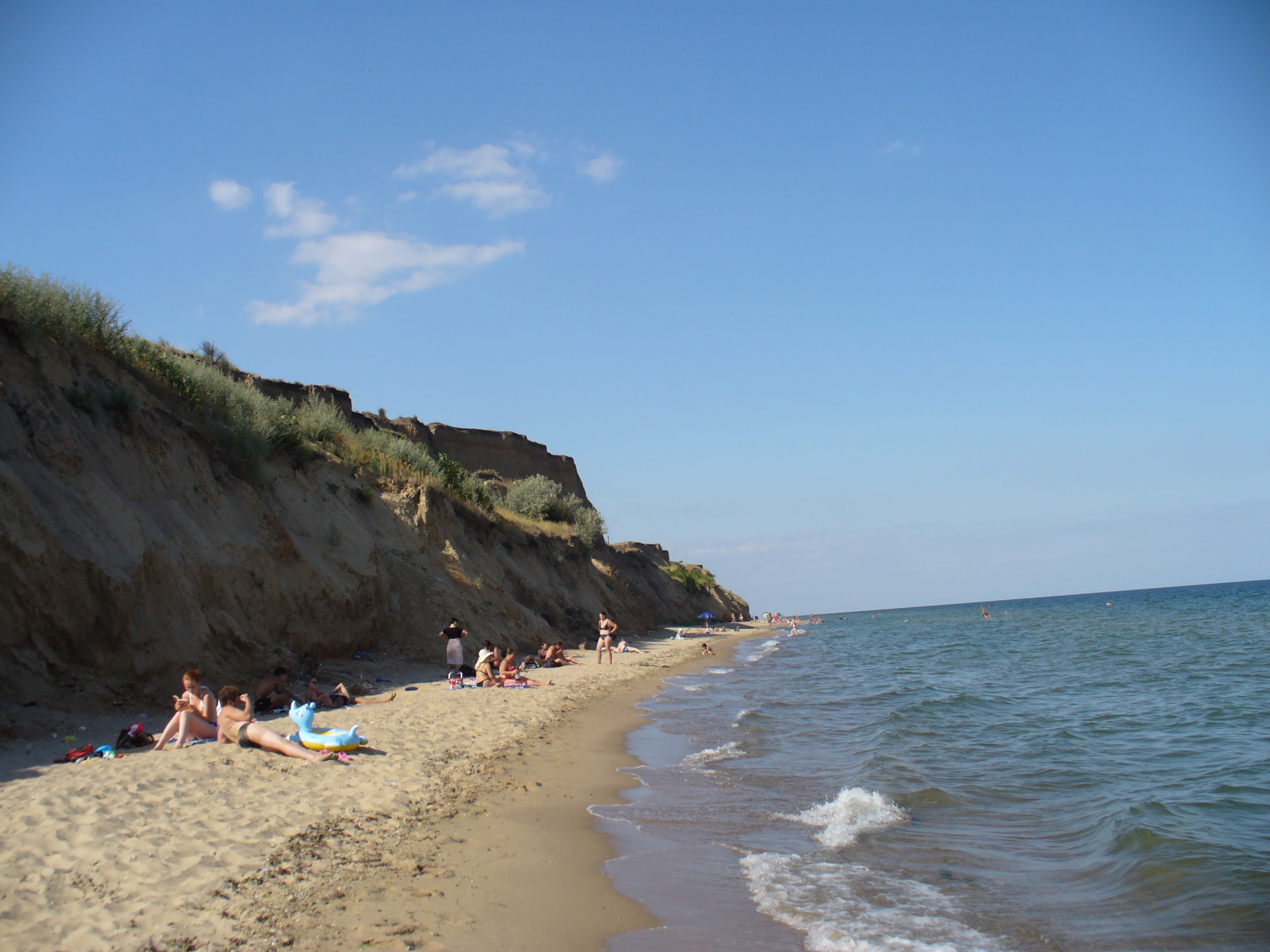 Sanjeyka